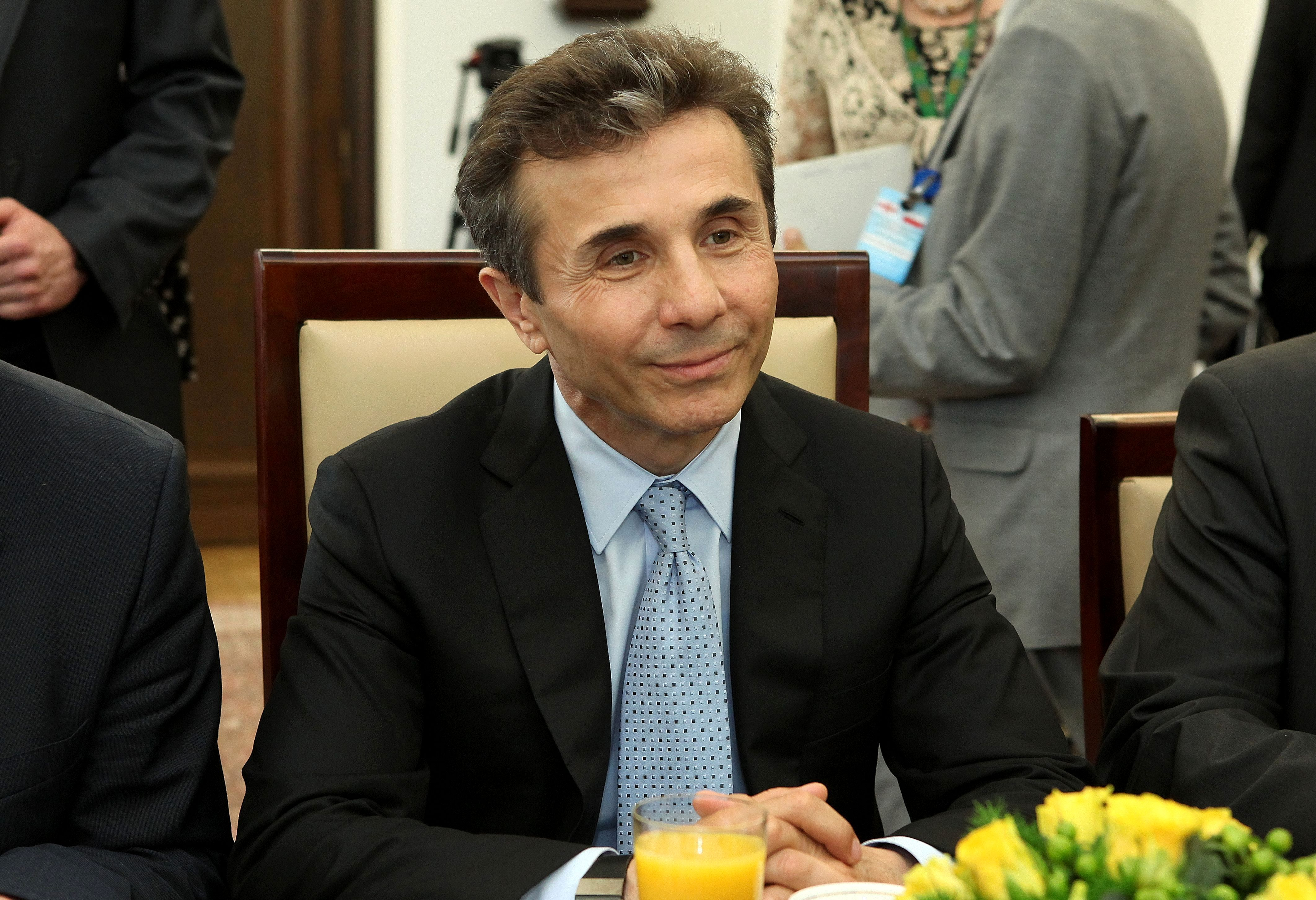 Prime Minister of Georgia Bidzina Ivanishvili in the Polish Senate